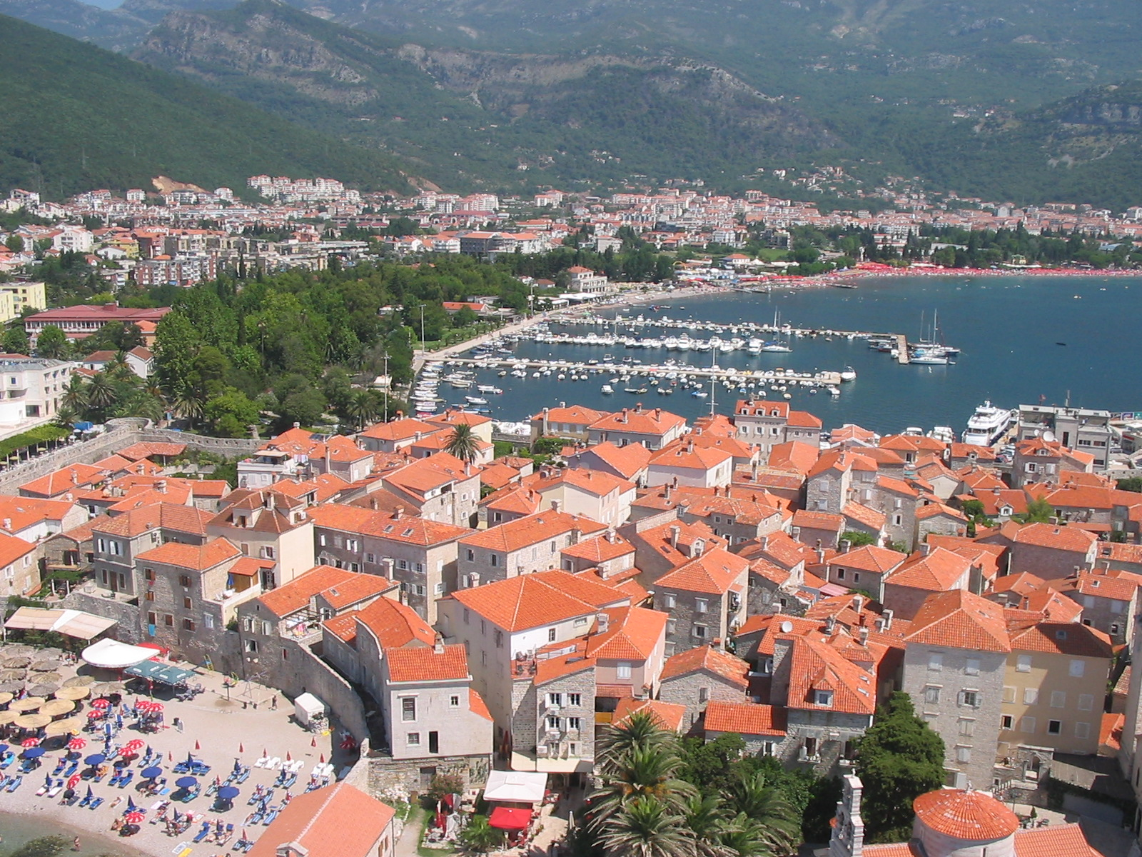 Picture of Budva, taken by myself on the 29.07.2005 Camera manufacturer Canon Camera model Canon PowerShot A60 Orientation Normal Horizontal resolution 180 dpi Vertical resolution 180 dpi File change date and time 11:27, 29 July 2005 Y and C positioning 1 Exposure time 1/1000 sec (0.001) F-number f/4.5 Exif version 2.2 Date and time of data generation 11:27, 29 July 2005 Date and time of digitizing 11:27, 29 July 2005 Image compression mode 3 Shutter speed 9.96875 Aperture 4.34375 Exposure bias 0 Maximum land aperture 2.96875 Metering mode Pattern Flash 24 Lens focal length 5.40625 mm